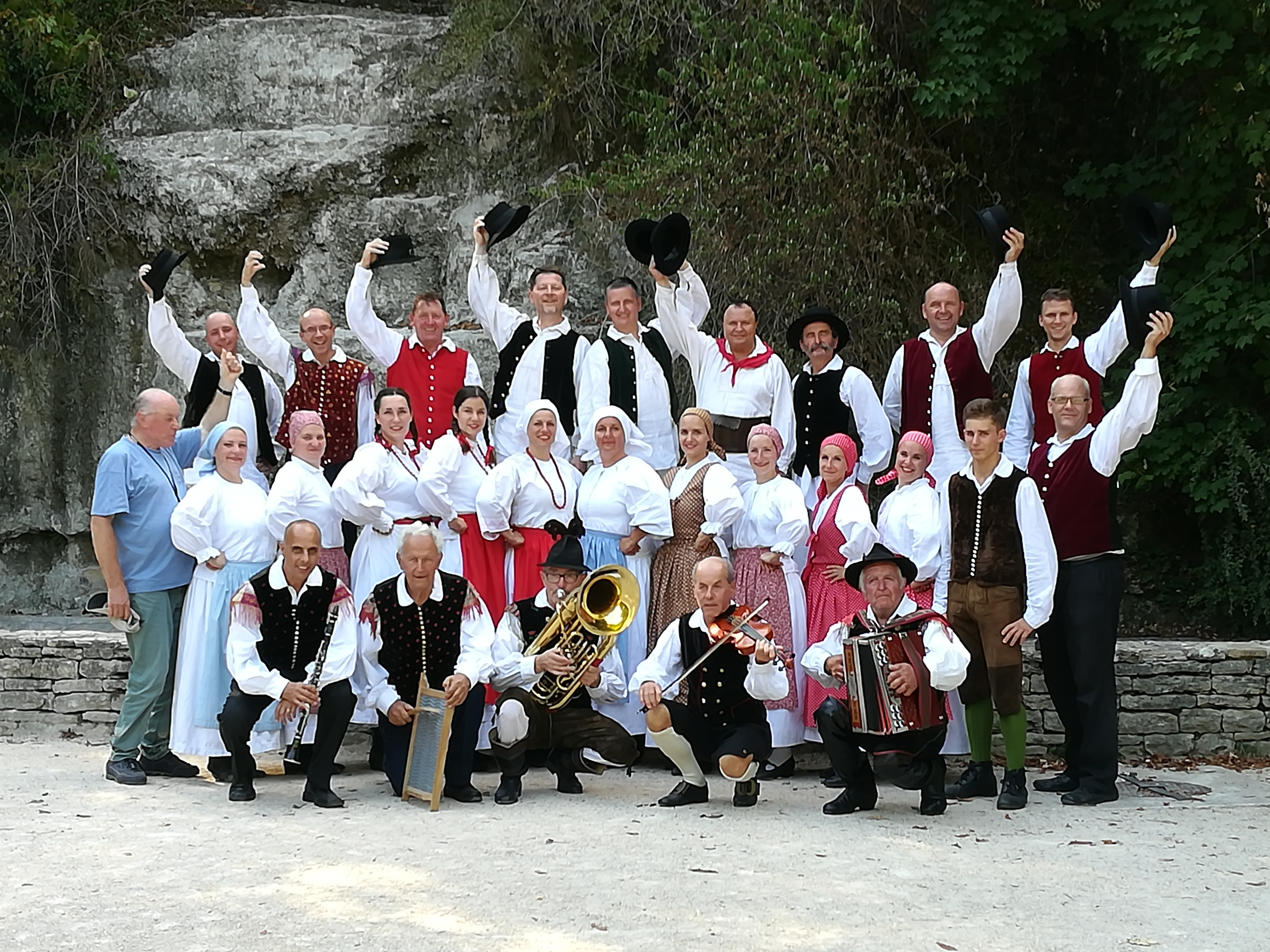 Folk dance group SAVA Kranj Slovenija. Festival 2018: Fetes de la vigne du 21 au 26 aout 2018 DIJON France